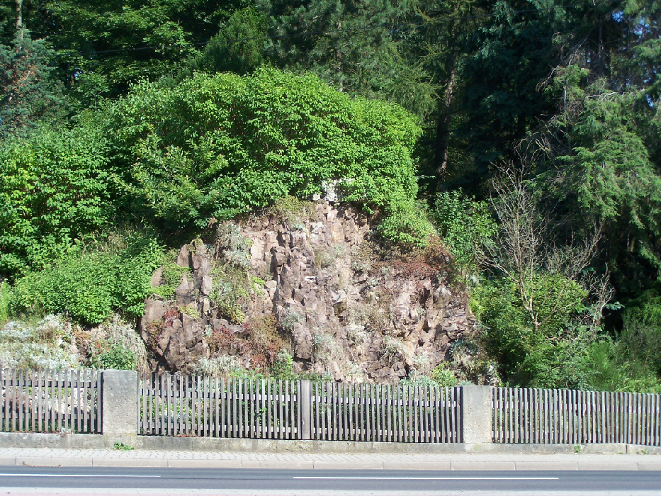 The rest of Heiligenstein crag, reduced in 1880 by railway routeing.